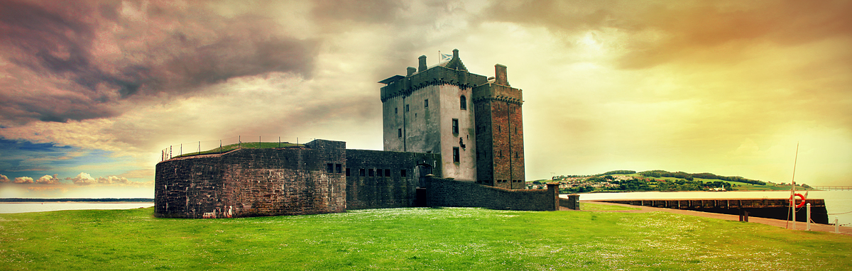 Broughty Castle. Photograph by David McIntosh